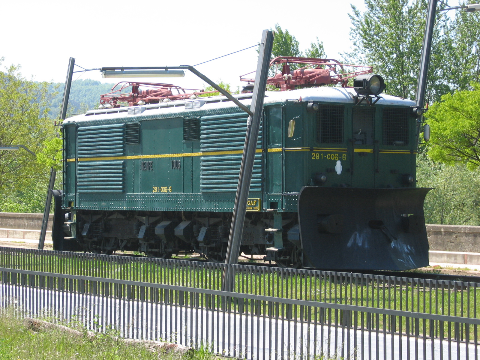 Electric locomotive 1006 series exposed at Ripoll (Girona) station